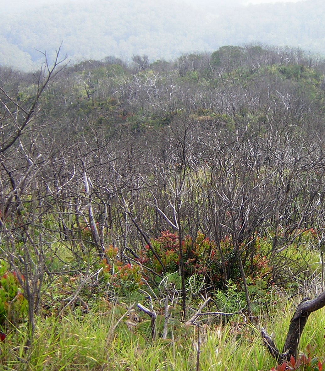 Elfin vegetation near the summit of Ceremai mountain, Kuningan, West Java. Note that this vegetation is affected by fire.